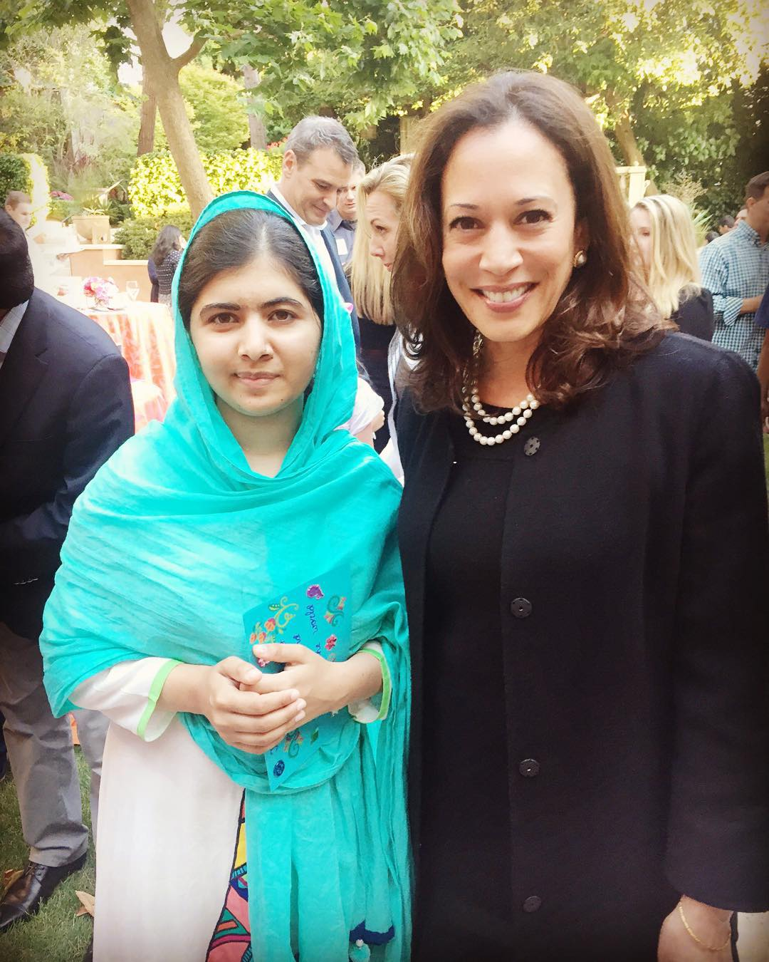 Malala Yousafzai with Kamala Harris